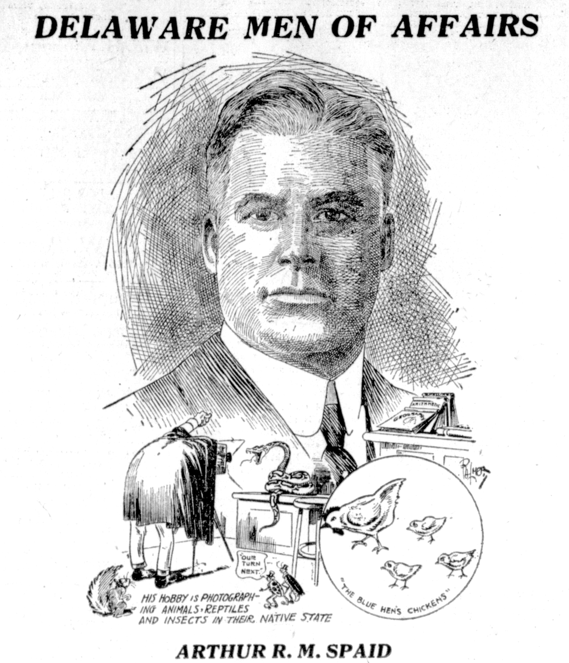 Sketch portrait of Arthur R. M. Spaid from The Evening Journal, 25 January 1919. (25 January 1919). "Delaware Men of Affairs". The Evening Journal: 14. Retrieved on 14 September 2019.